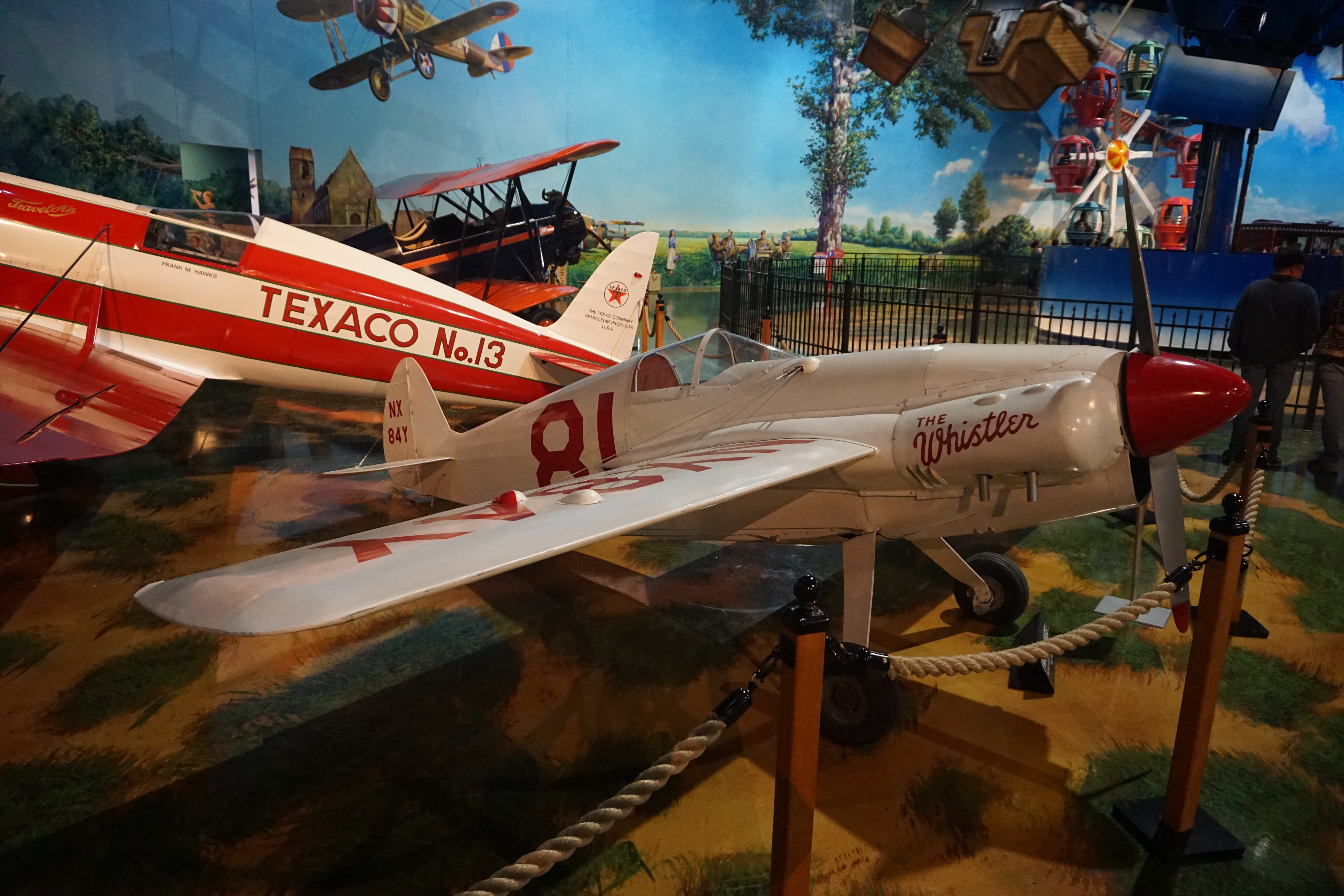 A Francis-Angell Heath Baby Bullet on display at the Air Zoo at Kalamazoo/Battle Creek International Airport in Portage, Michigan (United States).